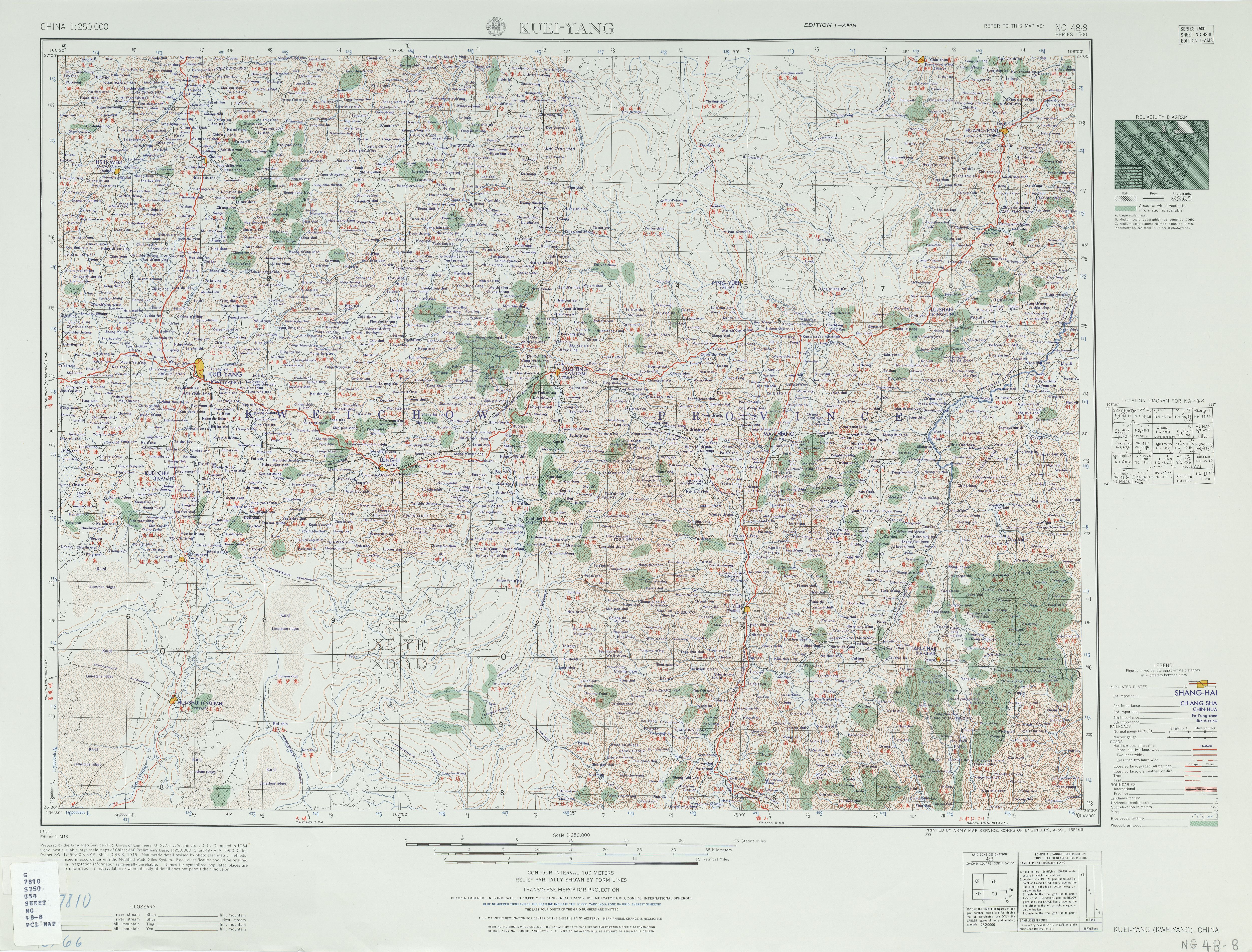 China AMS Topographic Maps